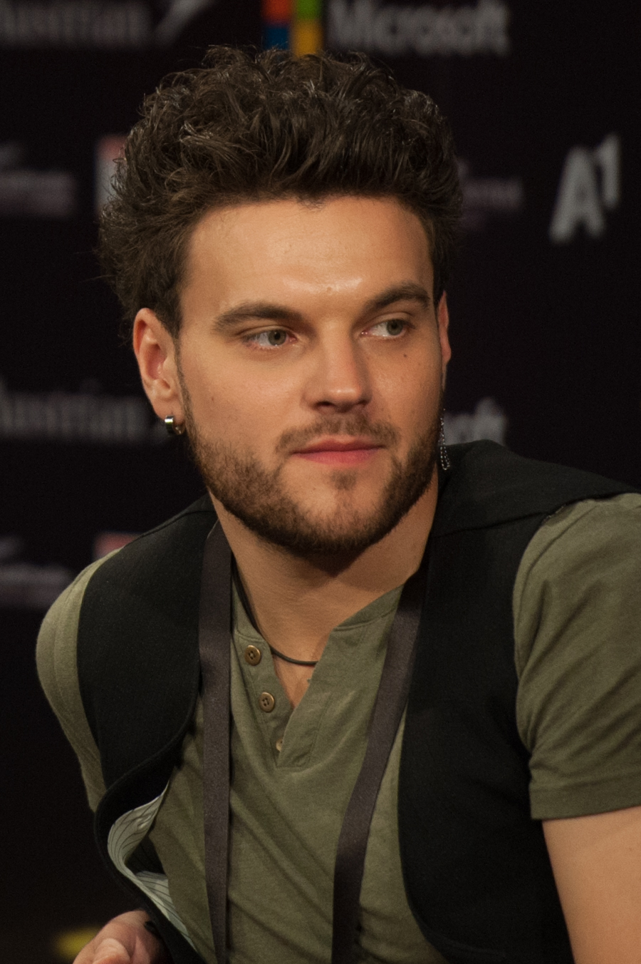 Eurovision Song Contest Vienna 2015: Uzari